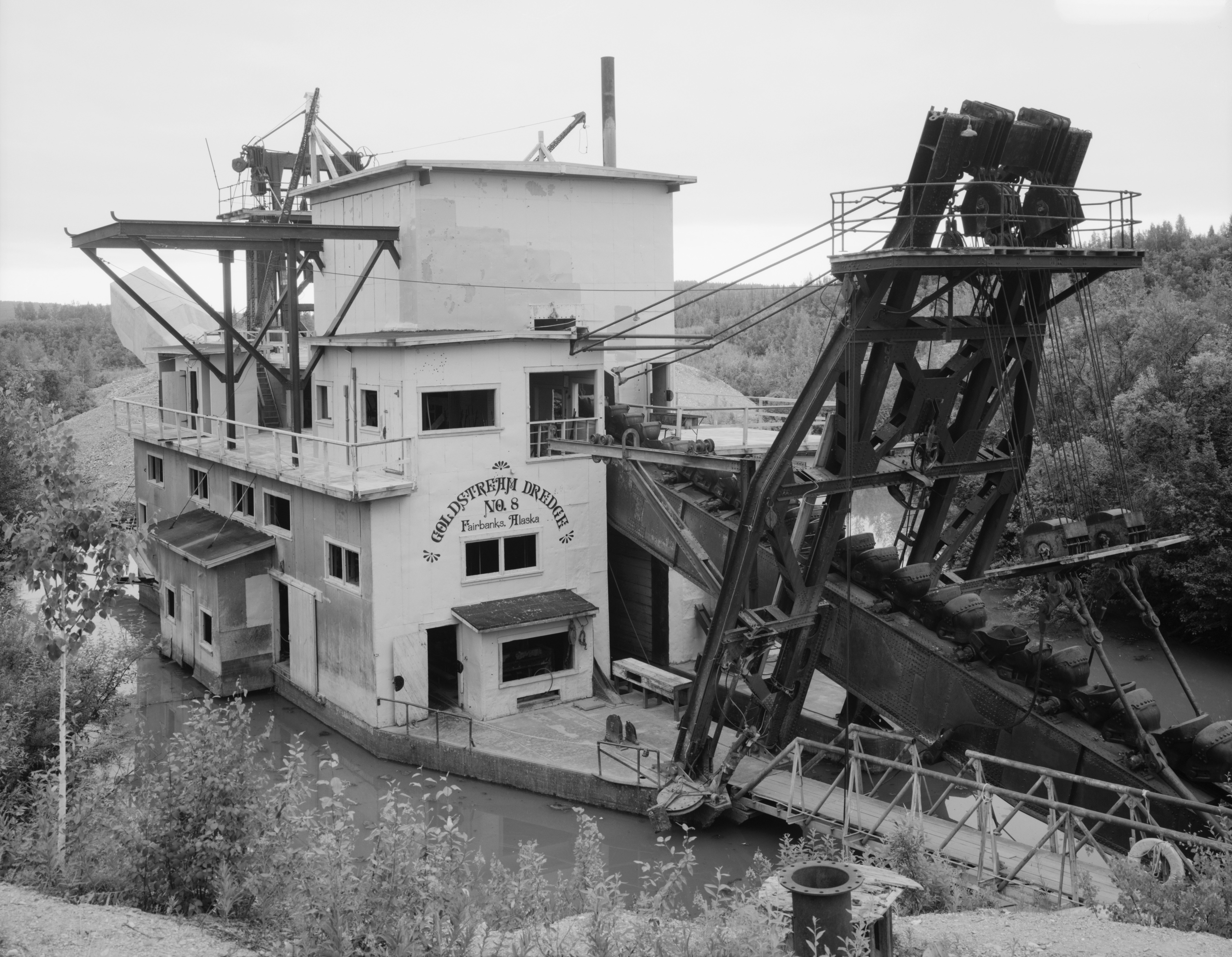 Fairbanks Exploration Company, Goldstream Dredge No. 8, Fox, Fairbanks (North Star Borough, Alaska) - cropped